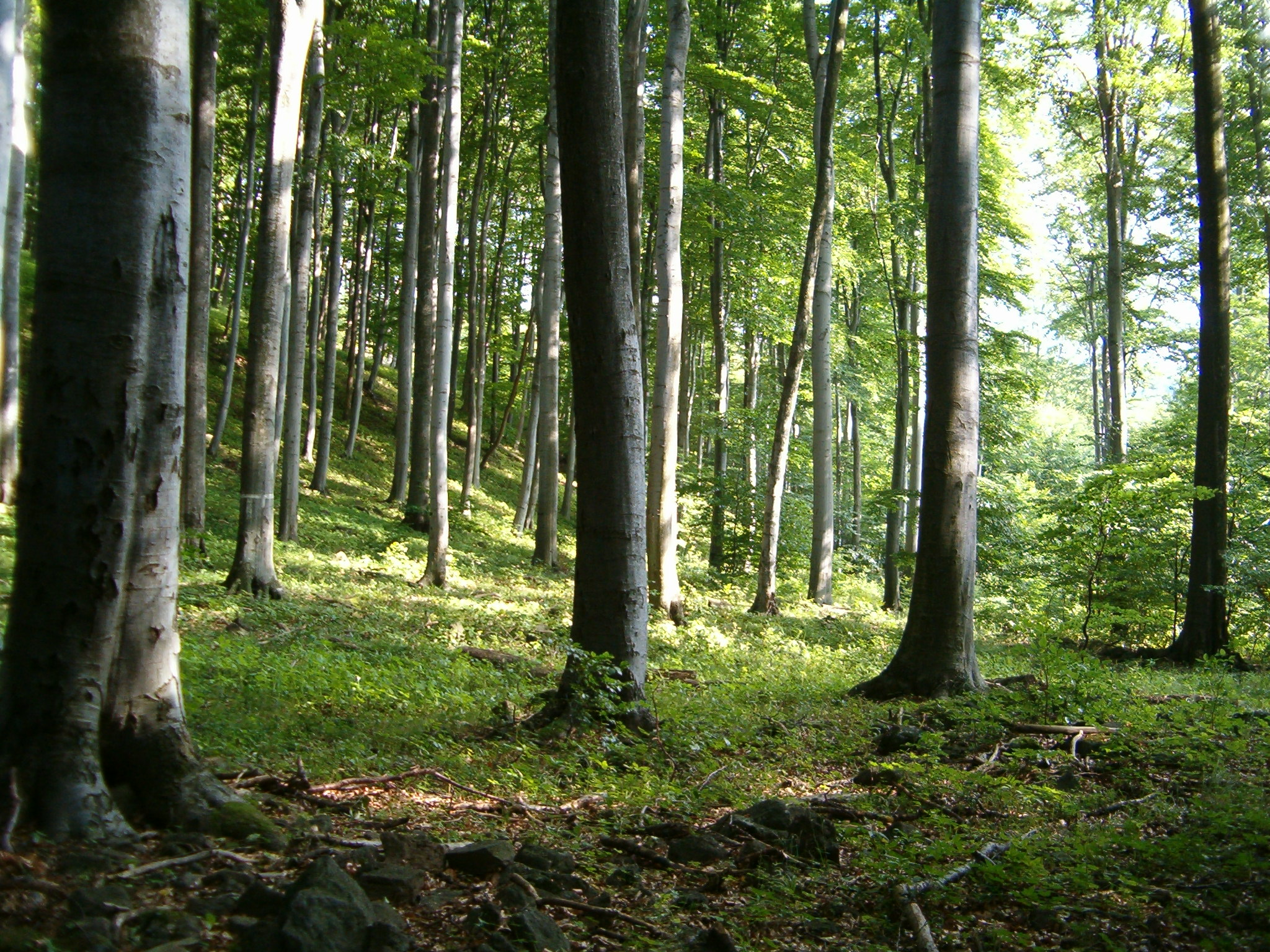 beech forest in the Mátra Mt. (Hungary)